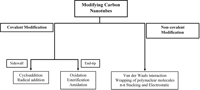 Modifying carbon nanotubes chart.